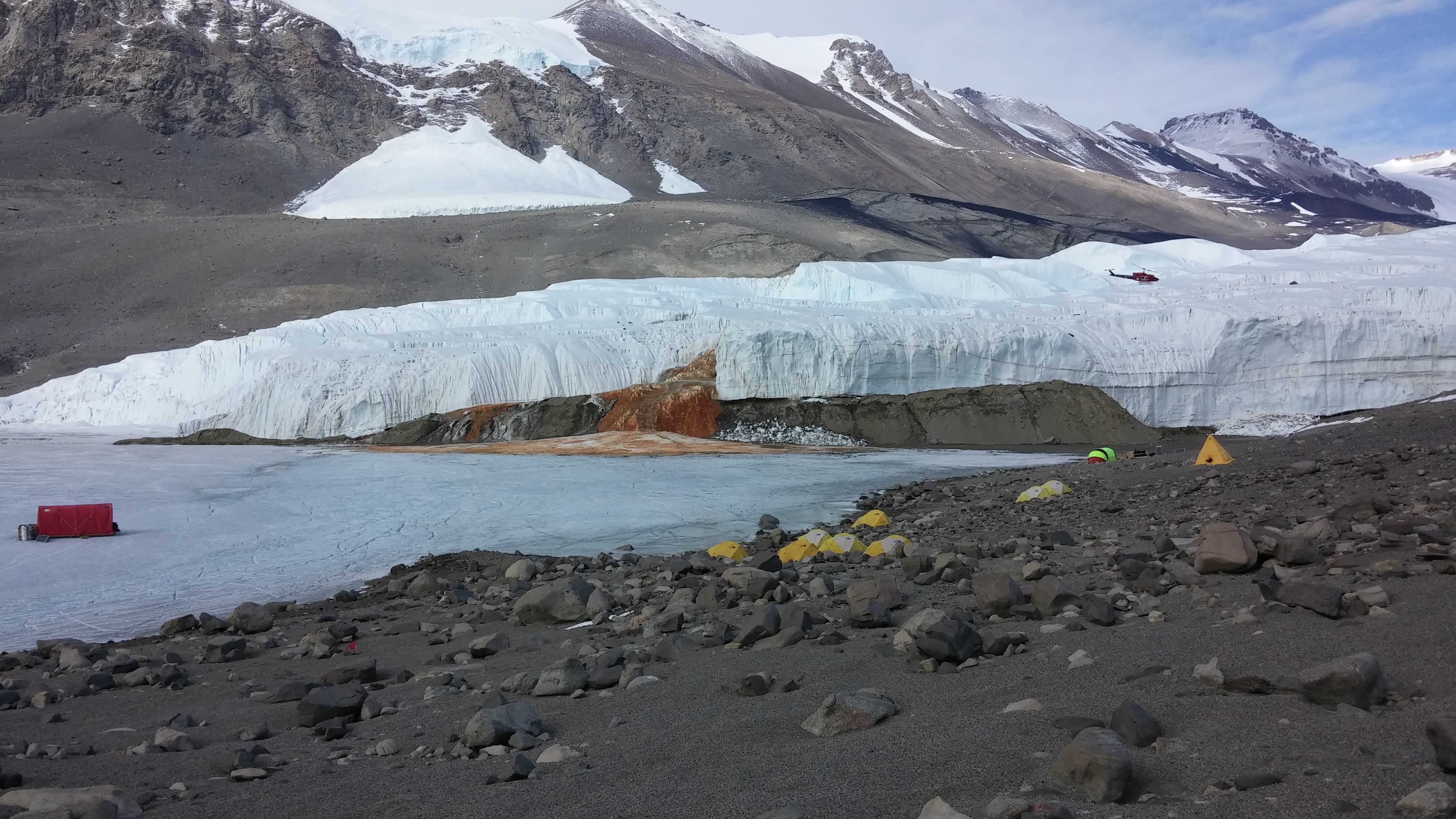 Up to the Glacier: Helicopters from the National Science Foundation (NSF) fly equipment to the international team on Taylor Glacier. In the background is the blue tent of "Ground Control" and the green tent housing IceMole.